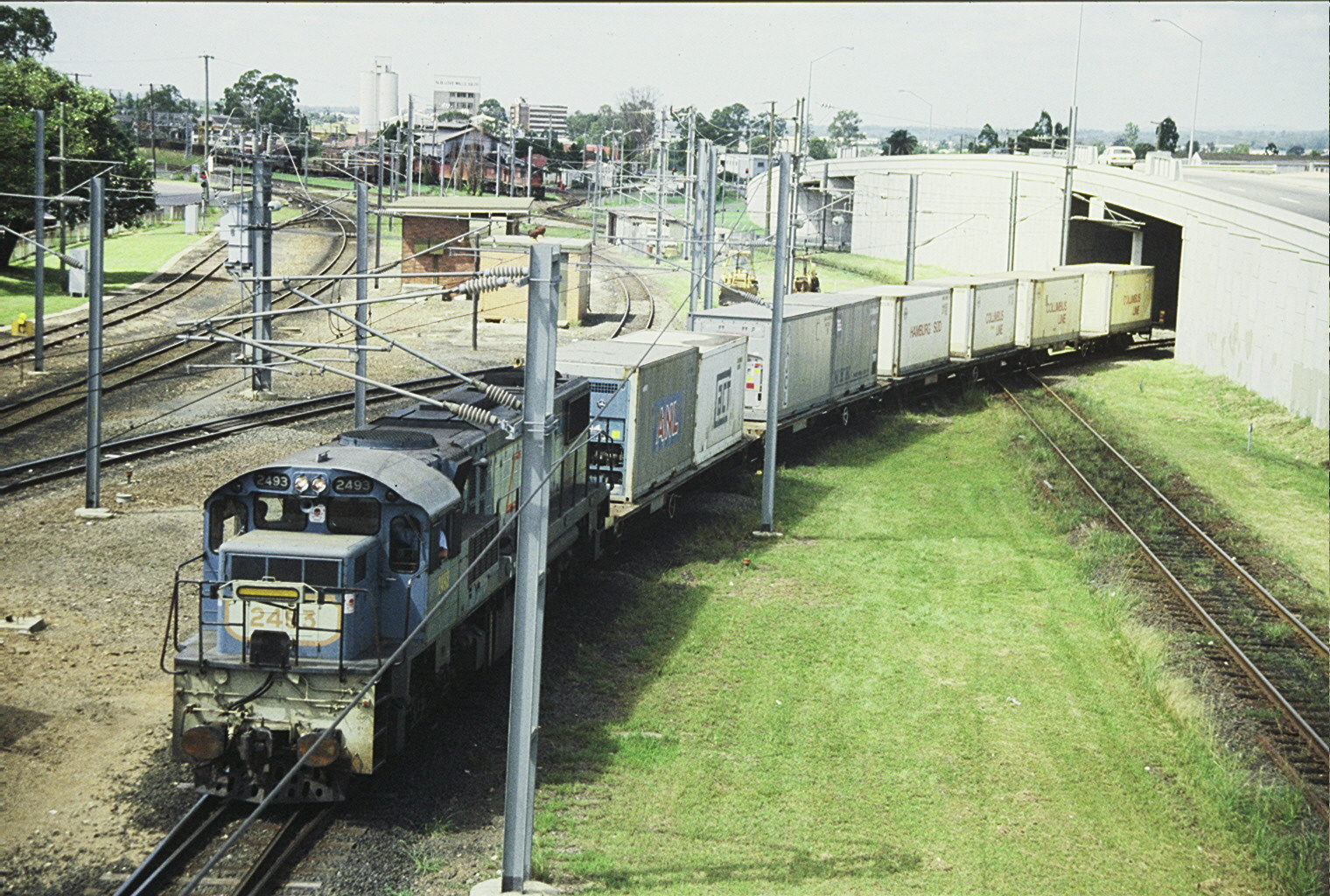 QR loco 2493 hauls a short container train across the Standard Gauge line to Sydney at Yeerongpilly station, 1987. Note the Standard Gauge loco shed in the background.